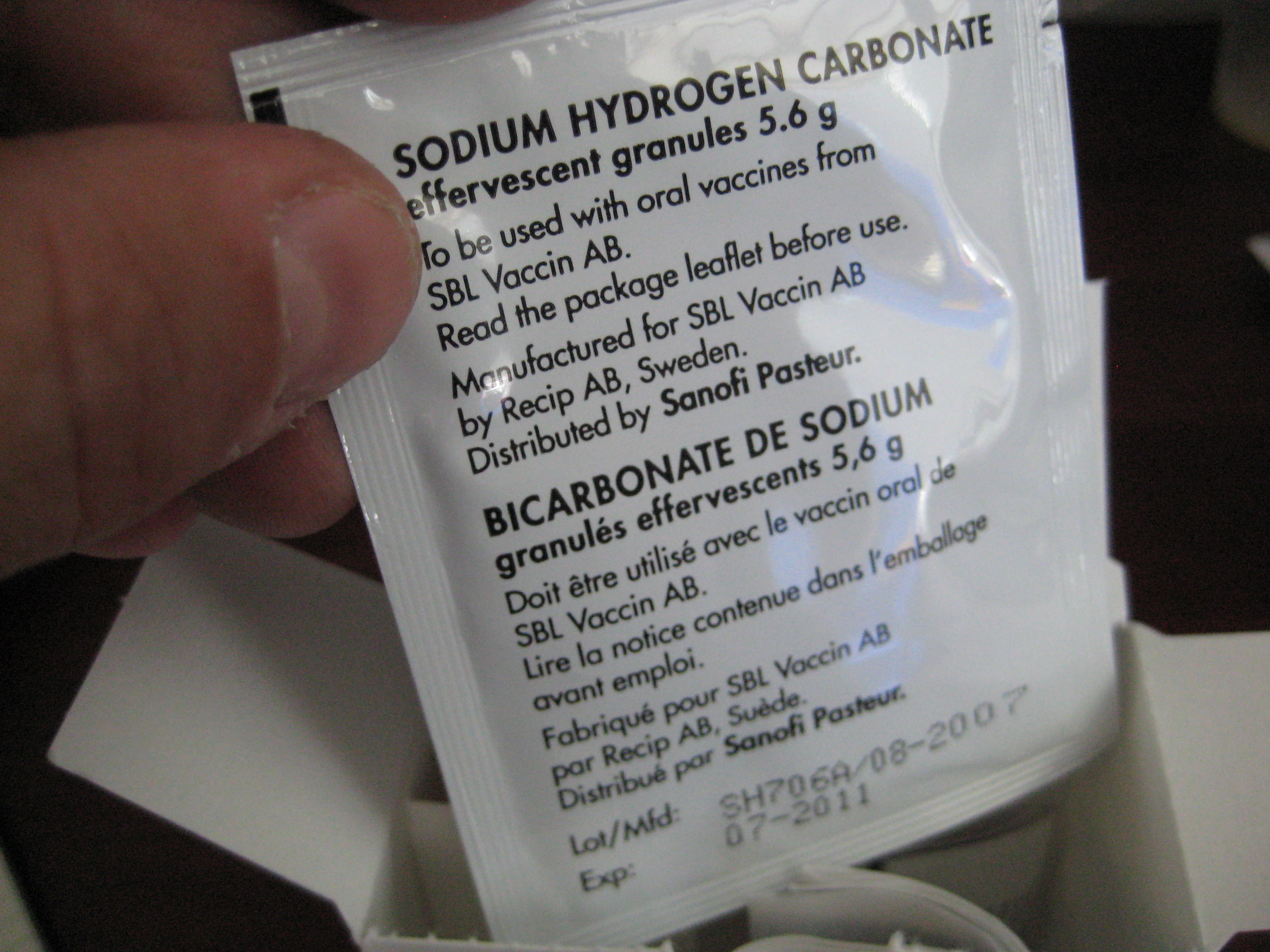 Bicarbonate buffer included in single-dose package of Dukoral, oral Cholera vaccine. Note the presence of an identifying batch number and expiration date.